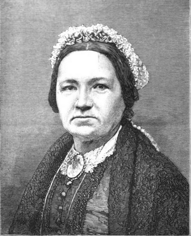 Maria Regina Christina Gobat, from an 1880 publication